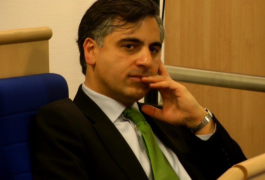 Payam Akhavan, Persian Canadian Lawyer and Human Right activist. He is the professor at McGill University in Montreal. Akhavan teaches and researches in the areas of public international law, international criminal law and transitional justice, with a particular interest in human rights and multiculturalism, war crimes prosecutions, UN reform and the prevention of genocide.